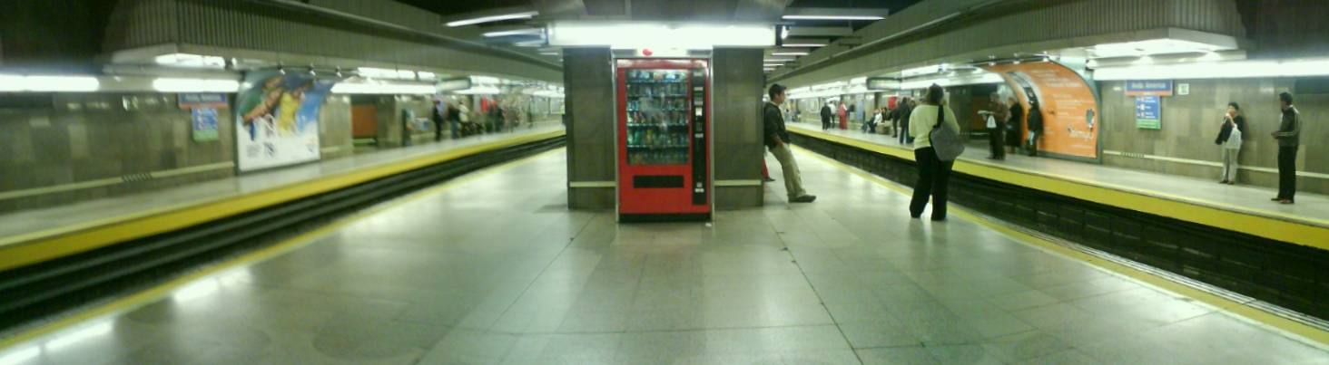 Avenida de América line 7 station of Madrid Metro. A clear example of spanish solution (third central platform).